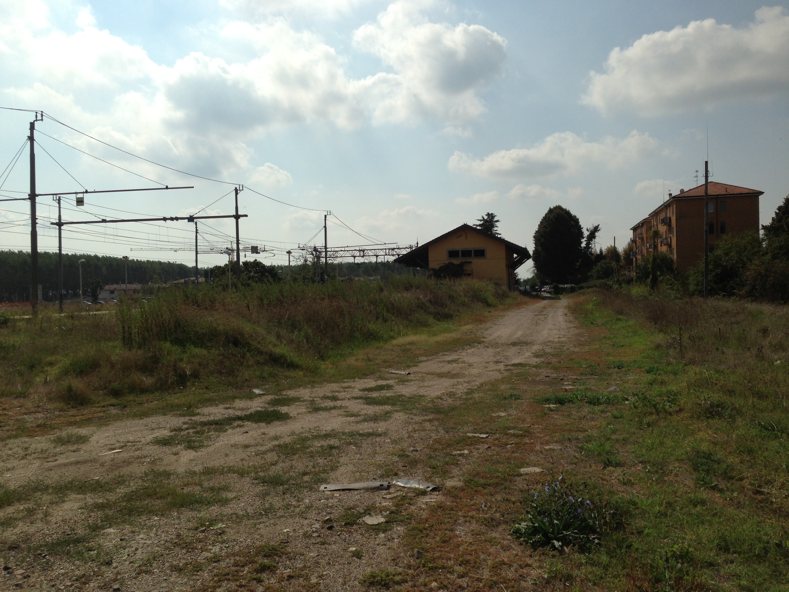 railway merchandise port of Villamaggiore (Lacchiarella) Italy